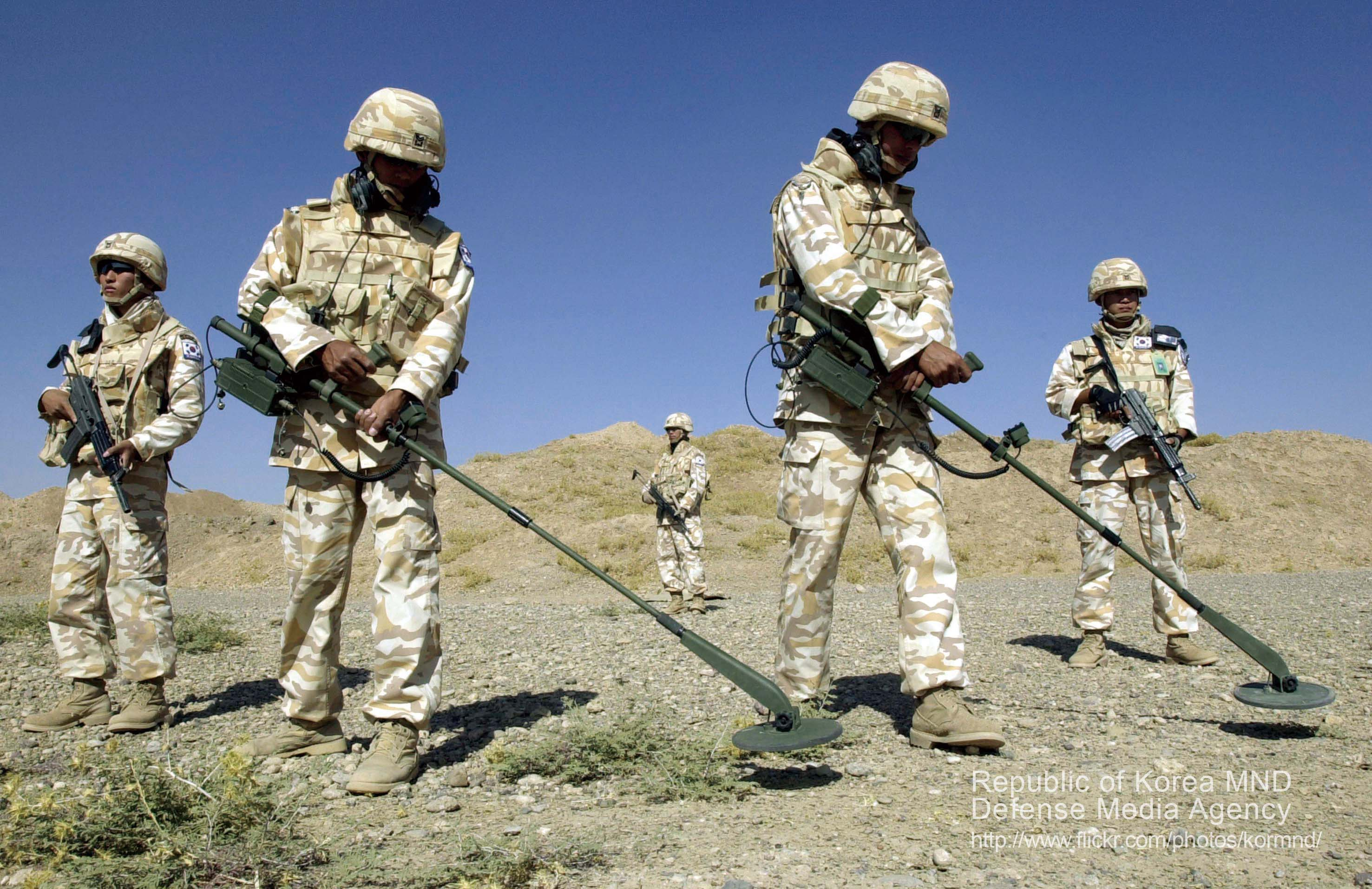 2010 국방화보 Rep. of Korea, Defense Photo Magazine 이라크 아르빌에서 평화·재건 임무를 수행하고 있는 자이툰부대 장병들이 지뢰 탐지를 하고 있다. Members of Zaytun Unit are searching for land mines in Arvil, Iraq.